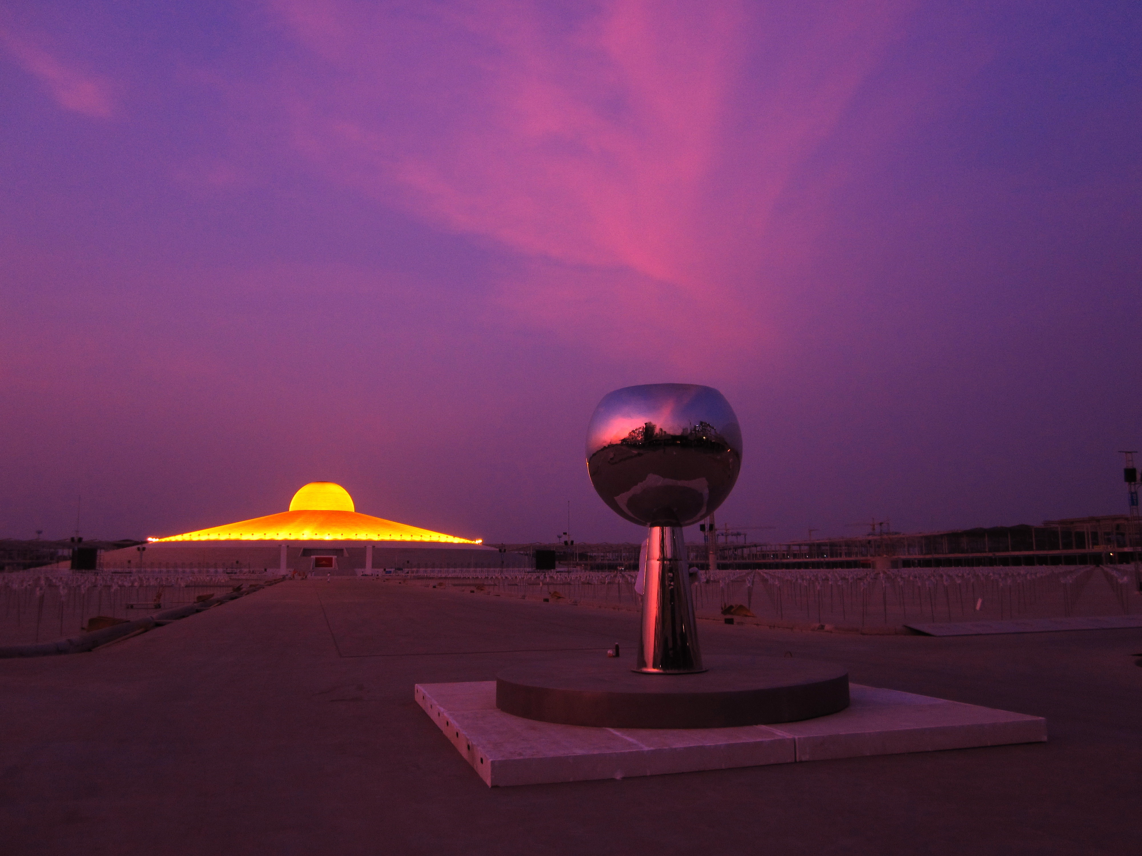 The Dhammakaya Cetiya, part of the Wat Phra Dhammakaya compound